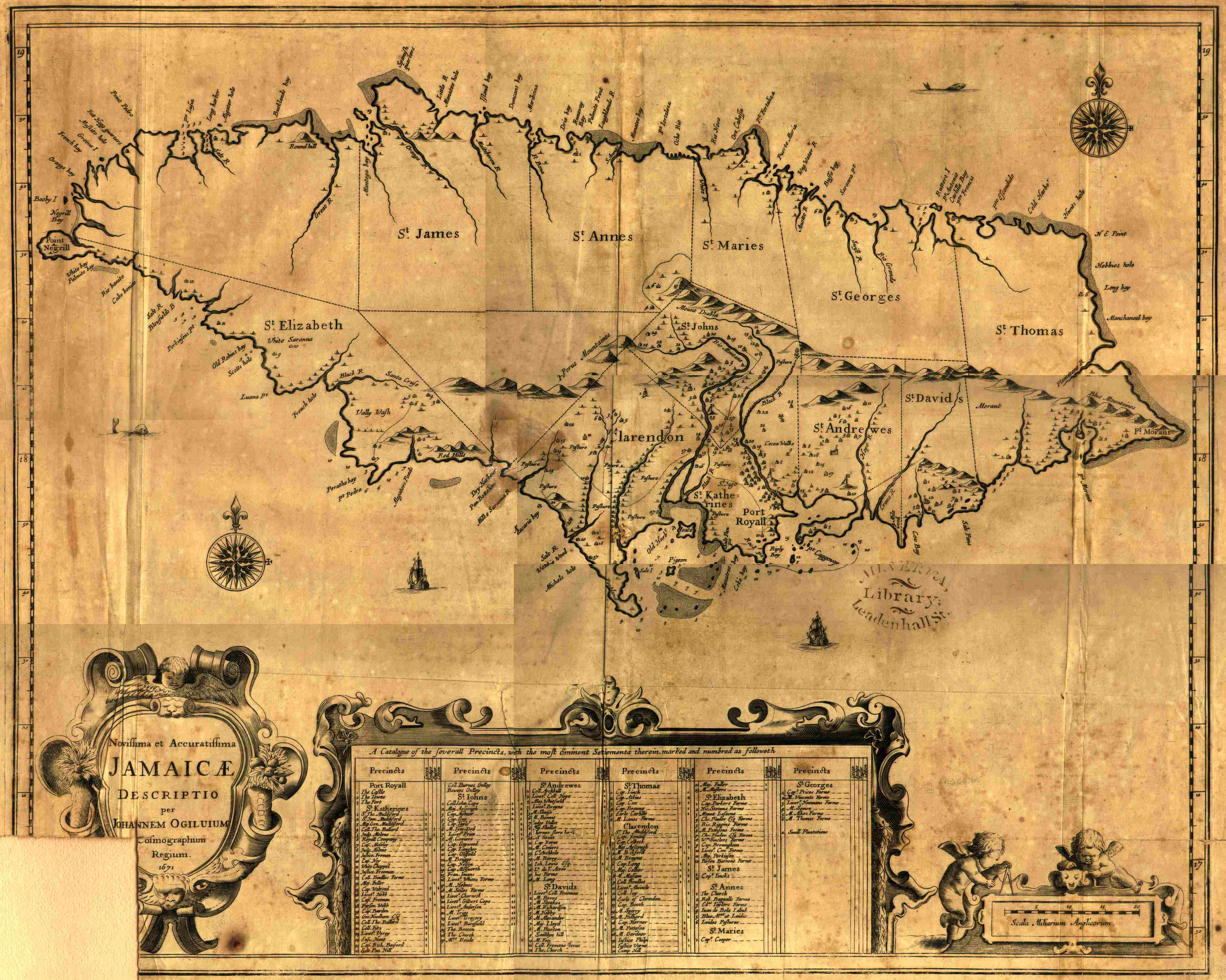 Map of Jamaica